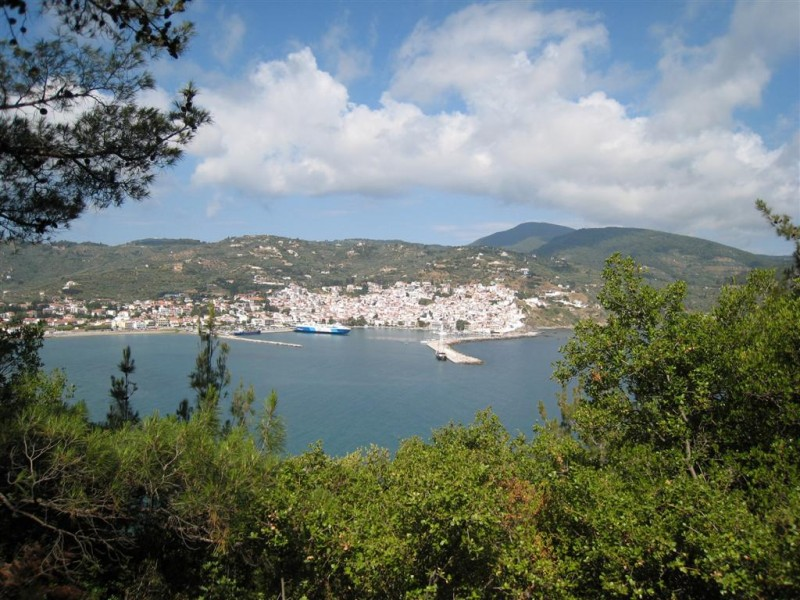 View of the Greek island Skopelos, looking towards Hora (the main town).